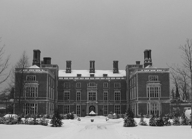 Webb bw